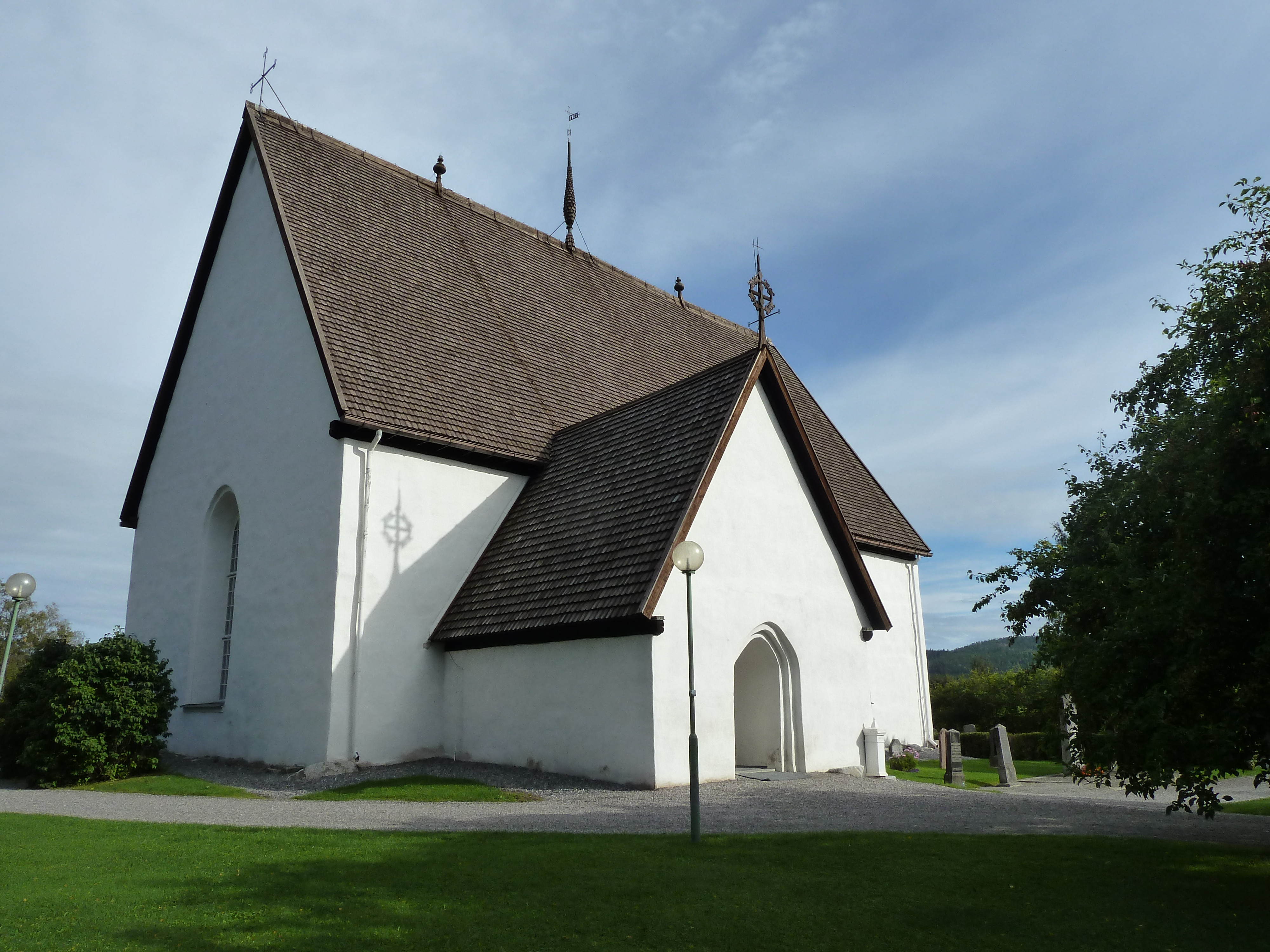 Anundsjö kyrka in Bredbyn.